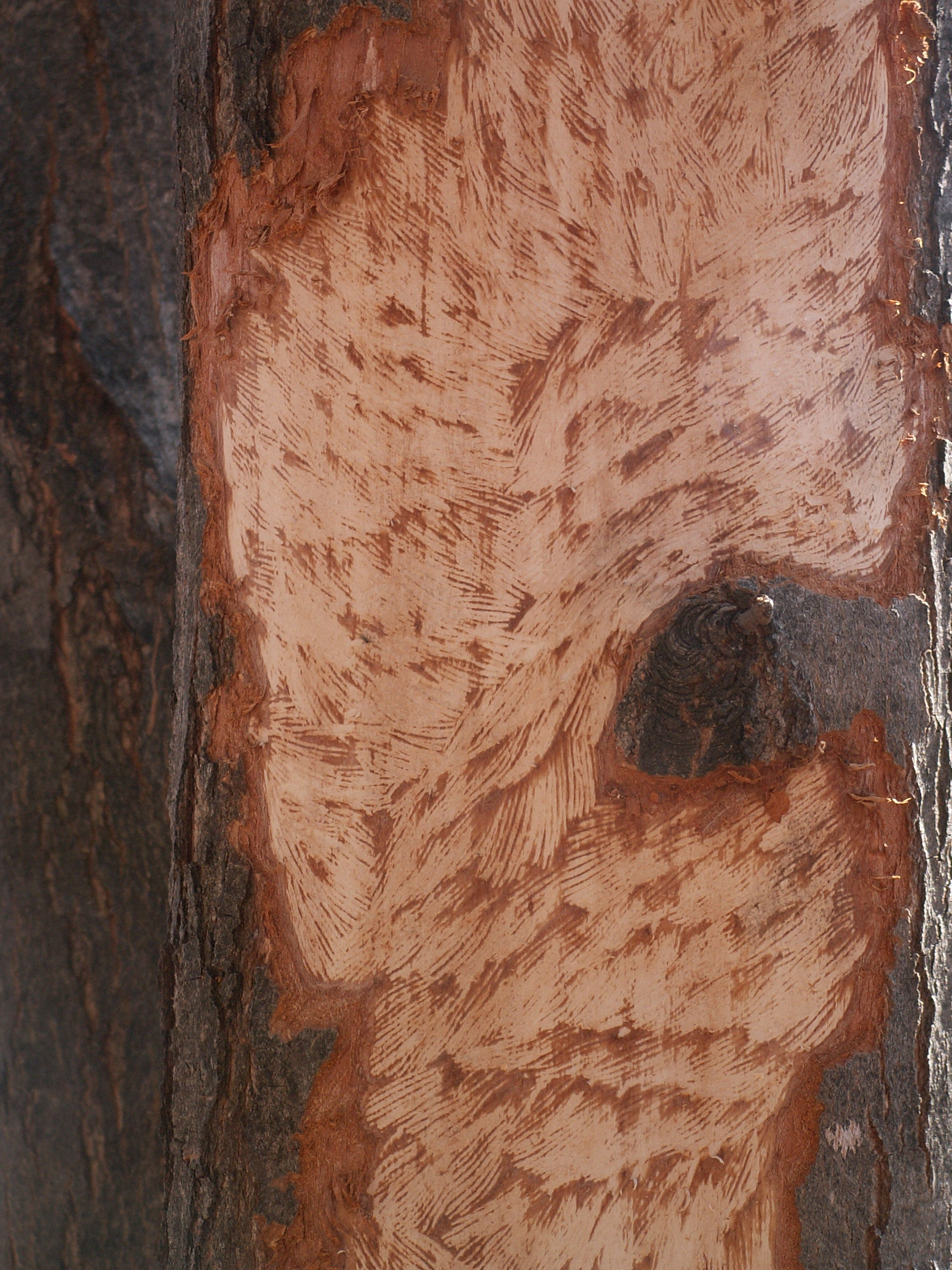 Bark of Sugar Maple (Acer saccharum) eaten by North American Porcupine (Erethizon dorsatum), Cap Tourmente National Wildlife Area, Quebec, Canada.